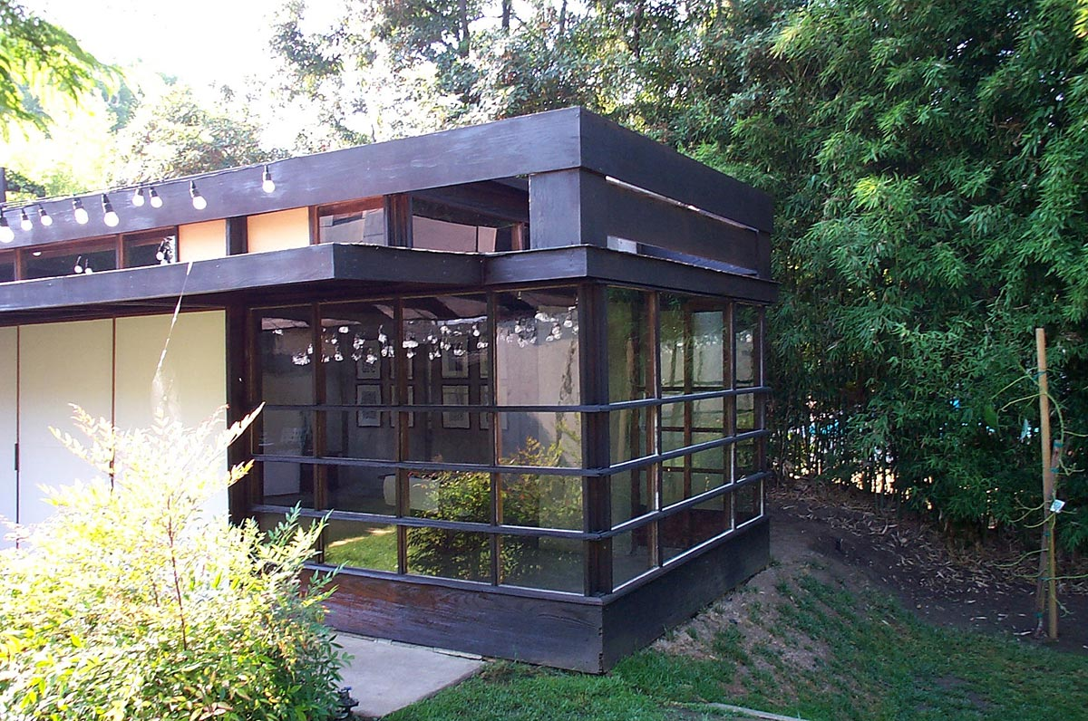 Schindler-Chase House, or Kings Road House on Kings Rd. in West Hollywood.